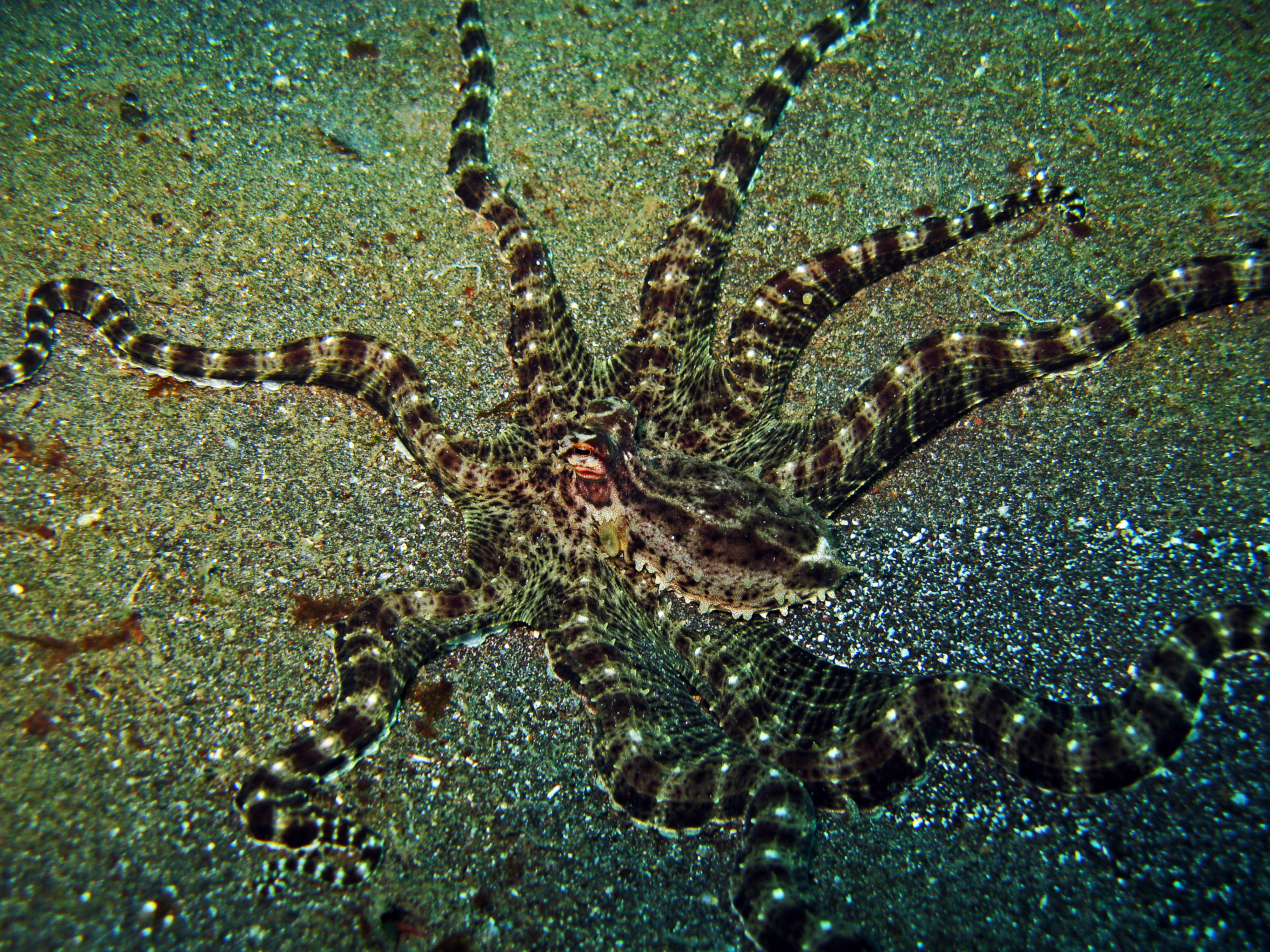 Mimic Octopus Thaumoctopus mimicus, Indonesia - North Sulawesi - Lembeh Strait